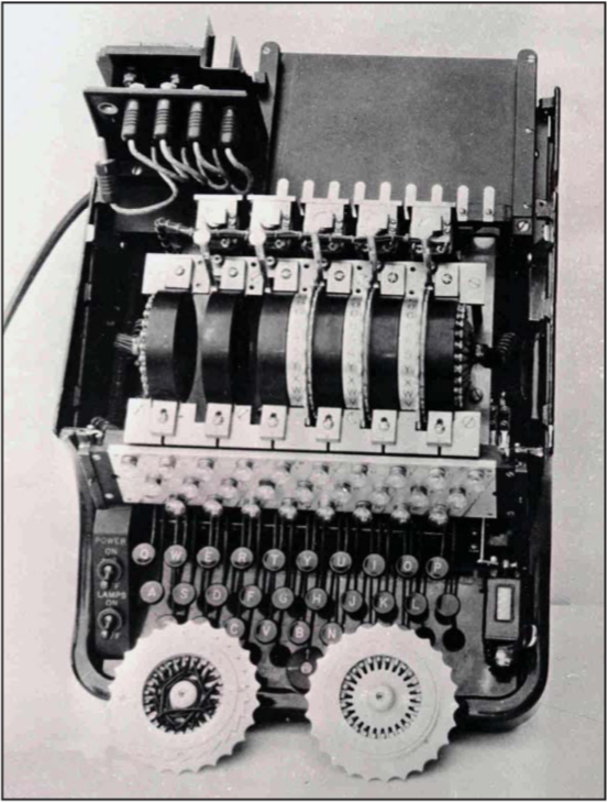 M-134 cipher machine, William F. Friedman's original design and the predecessor of the SIGABA. Note plugboard in upper left with five wires, one unplugged. These assigned the outputs of the control wheel maze to specific stepping solenoids and provided additional key variability. In SIGABA, also know as the ECM-II, the plugboard was replaced by five 10-pin rotors.